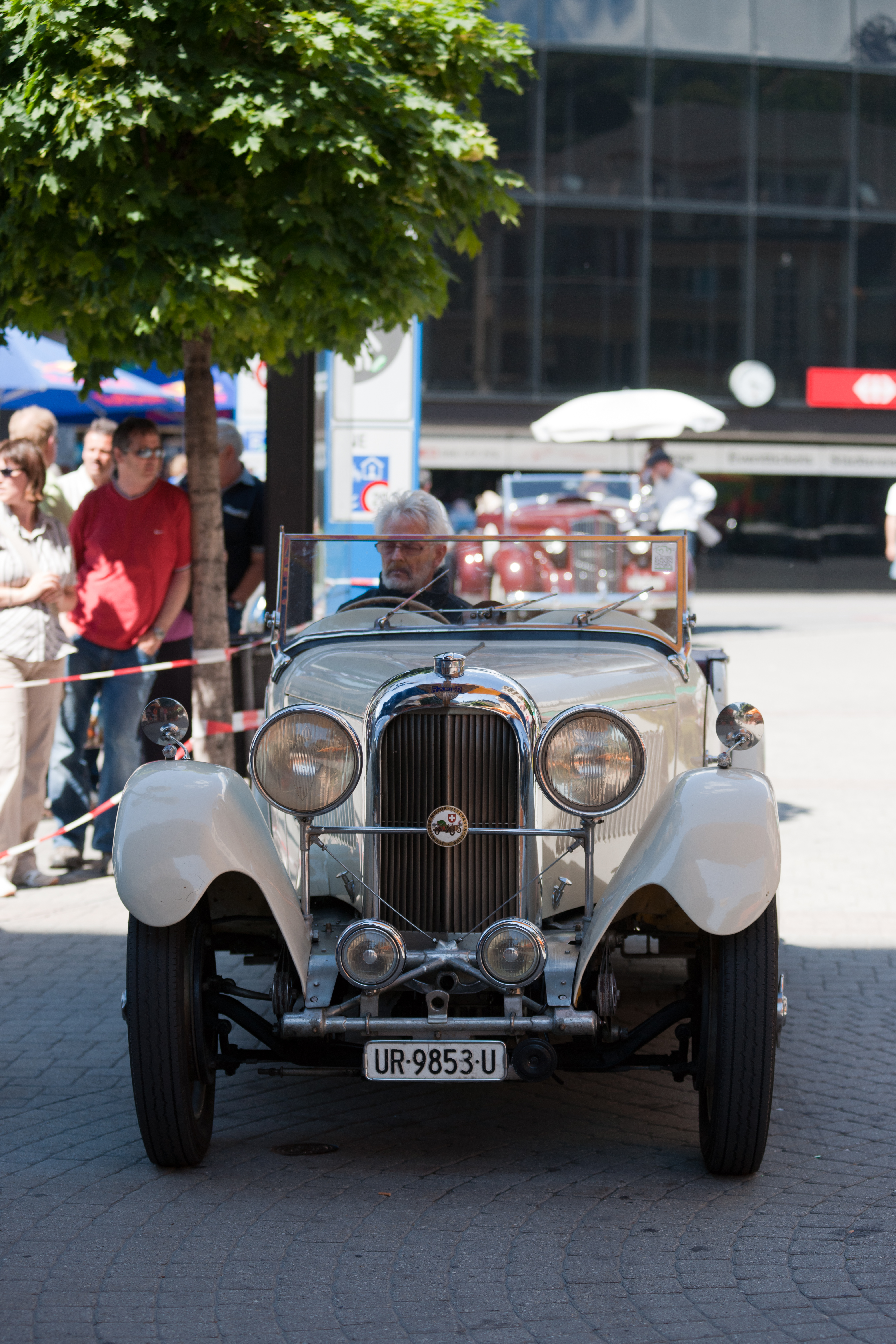 The making of this document was supported by Wikimedia CH. (Submit your project!) For all the files concerned, please see the category Supported by Wikimedia CH.